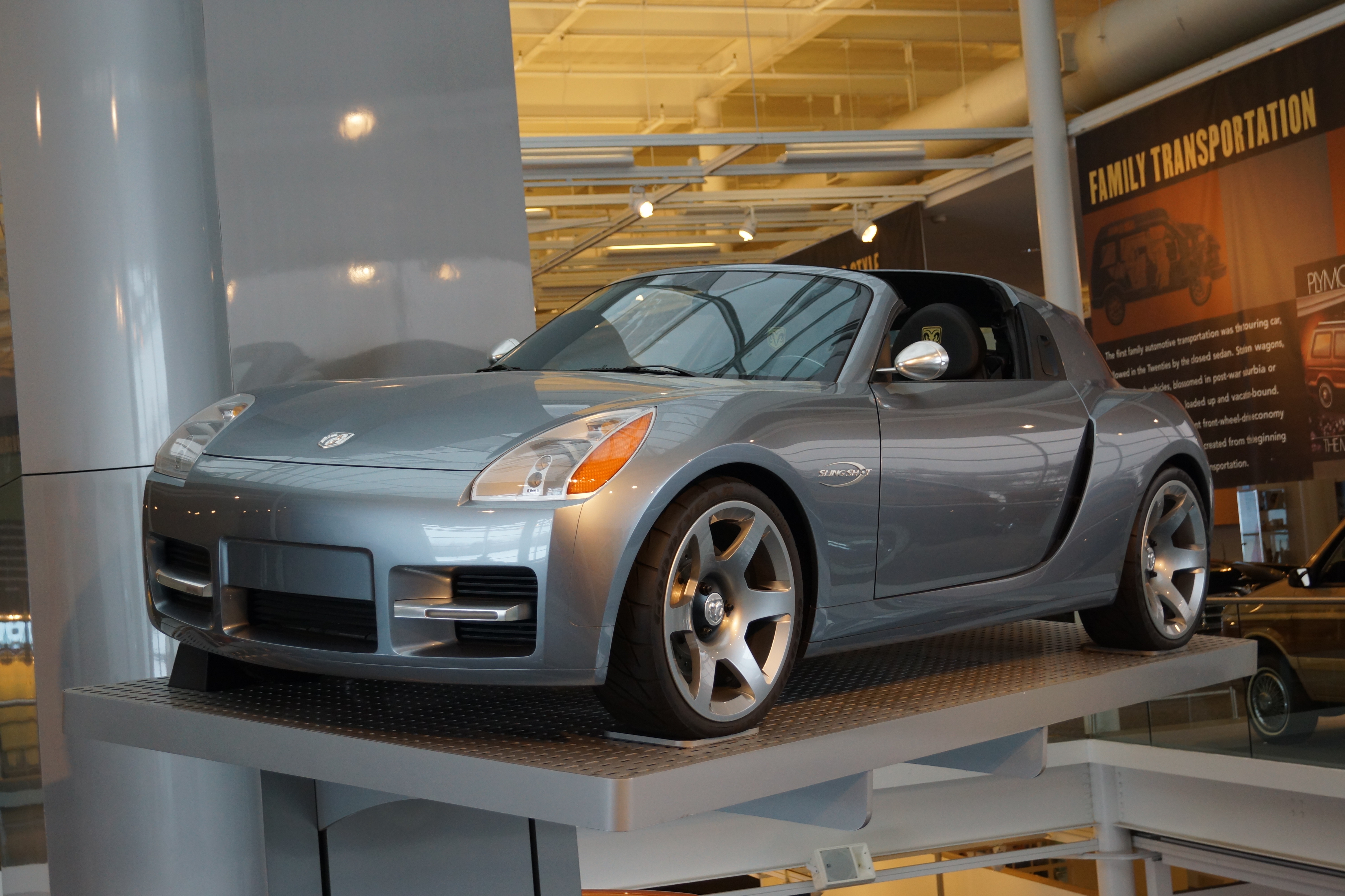 Click here for more car pictures at my Flickr site. Or here for my Car Crazy Tumblr site. ************************** Back on November 4th, Hemming's Blog posted an article about the closing of the Walter P. Chrysler Museum . I had missed a couple other opportunities with the WPC Club and others to get into the museum, after it had closed to the public. I did not want to regret missing this last chance to see all of the vehicles before being spread out to other facilities. I trekked from Western Minnesota to Eastern Michigan during Winter Storm Decima. I missed the worst parts of the storm, but still had to endure the aftermath winds, sub zero temperatures and a lake effect snow storm. The trip was difficult, but well worth it. I got to see several Chrysler Corporation concept and show cars that I had only seen pictures of before. There were several clever interactive displays demonstrating various innovations over the years. Since it was the last chance, I duplicated several shots using different camera settings to see what produced better results.